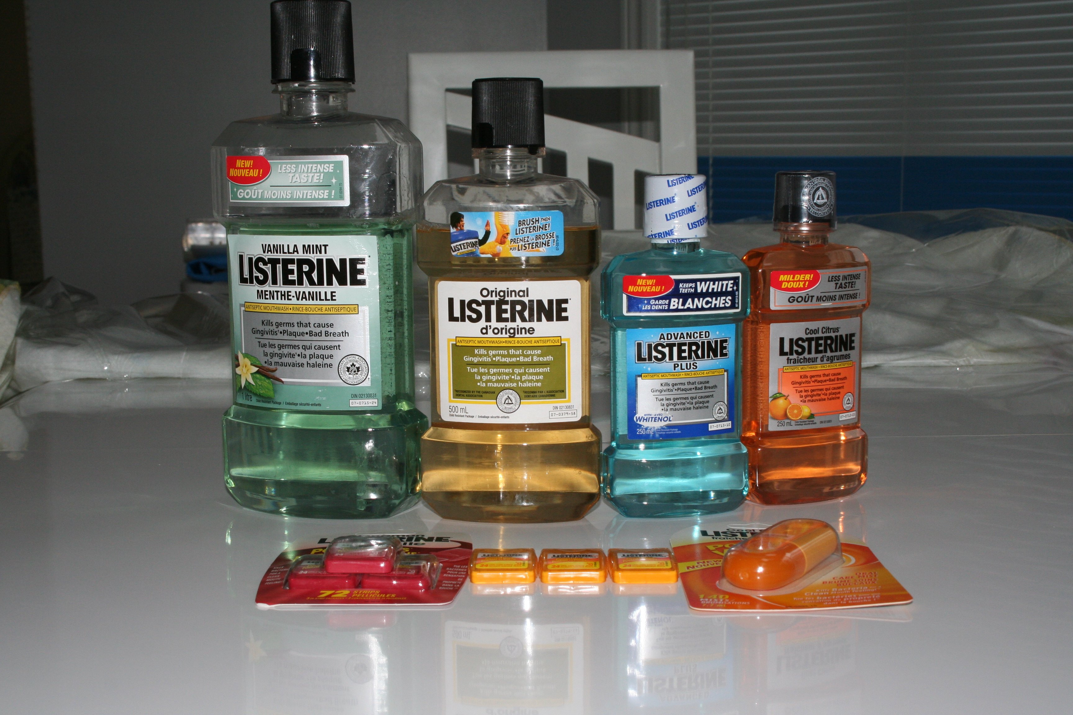 A variety of Listerine products. Left to right: Top : 1L bottle of Listerine Vanilla Mint, 500mL bottle of Listerine Original, 250mL bottle of Listerine Advanced Plus, 250mL bottle of Listerine Cool Citrus Bottom : 3 Listerine Cinnamon Pocketpaks, 3 Listerine Cool Citrus Pocketpaks, Listerine Cool Citrus Pocketmist. Shot with Canon Digital Rebel XT.